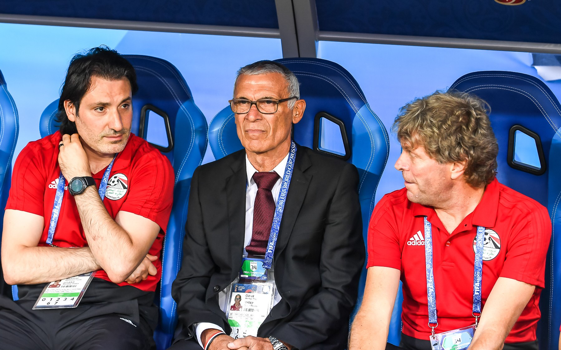 Mahmoud Fayez, Héctor Cúper and José Fantaguzzi